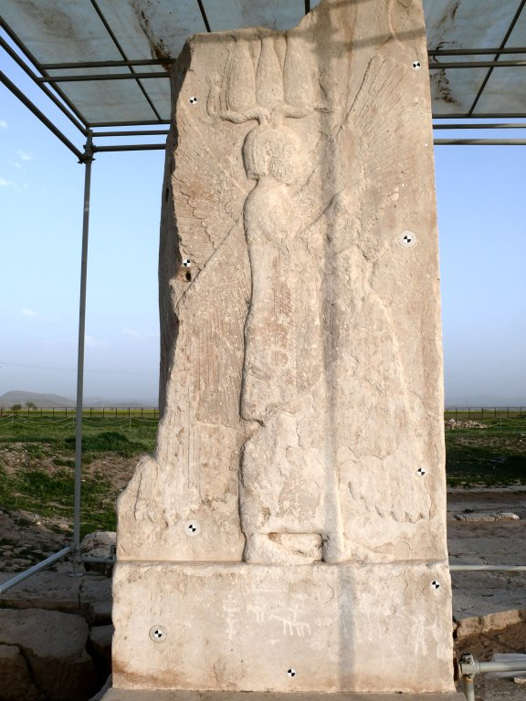 Winged man relief, Pasargadae, Province of Fars, Iran